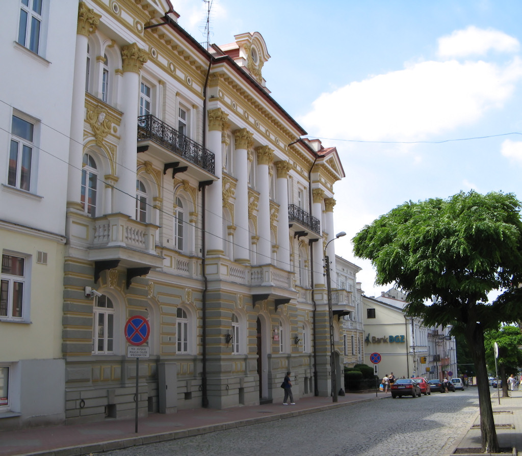 Building of District Court in Łomża